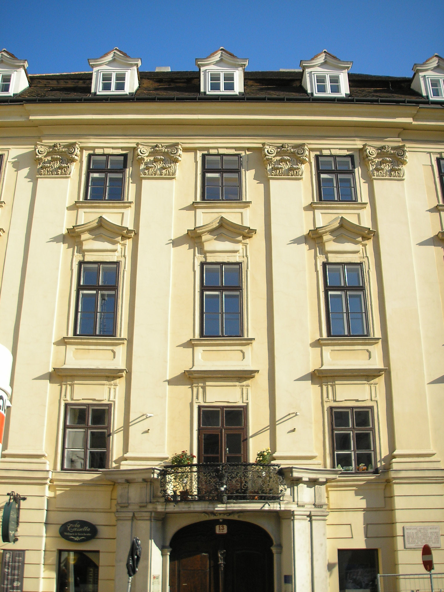 Palais Collalto in Vienna, Am Hof square.